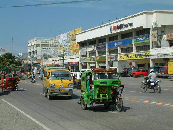 General Santos City, Philippines